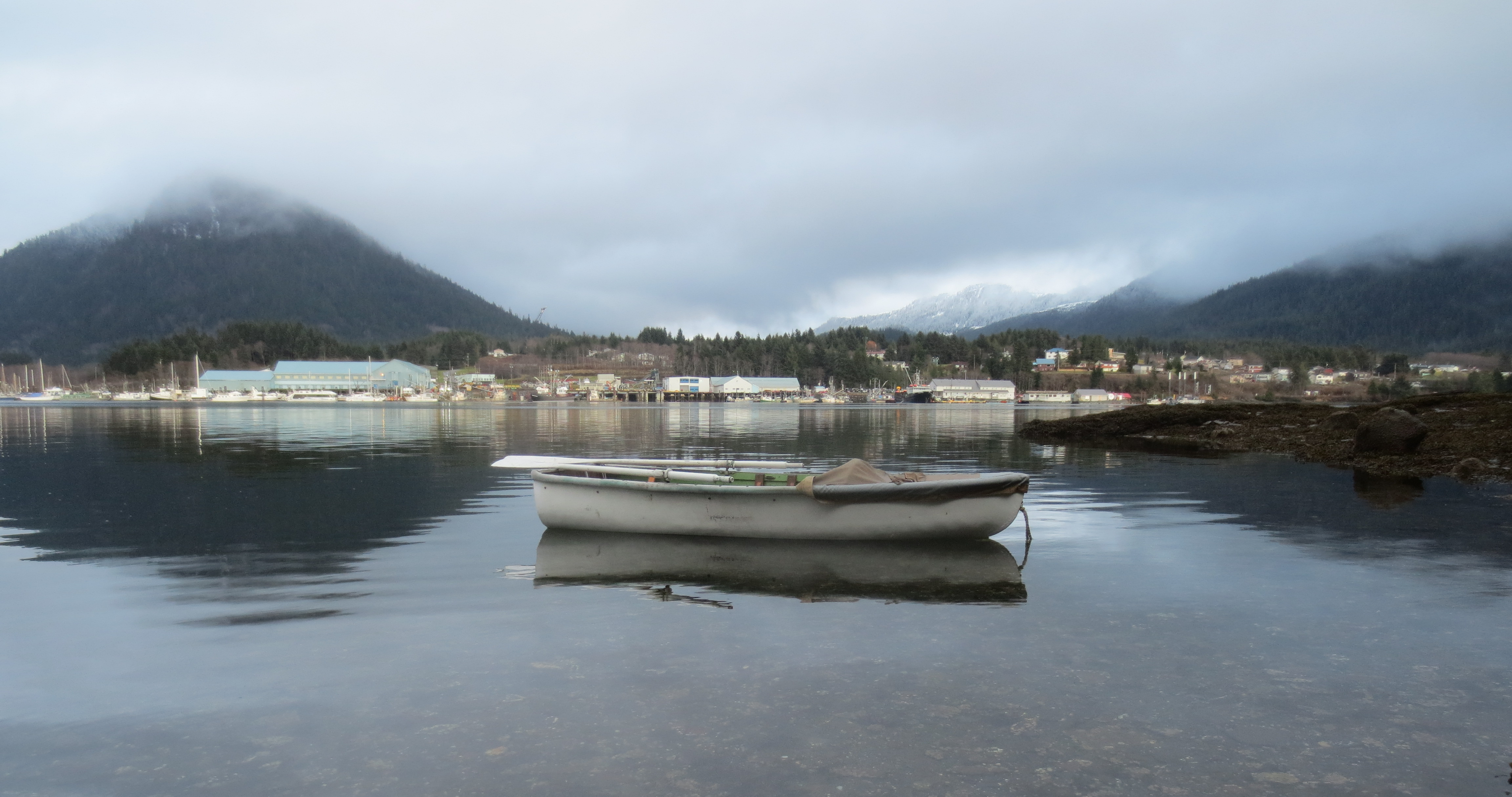 Port Edward in Winter as seen from Ridley Island, British Columbia, Canada